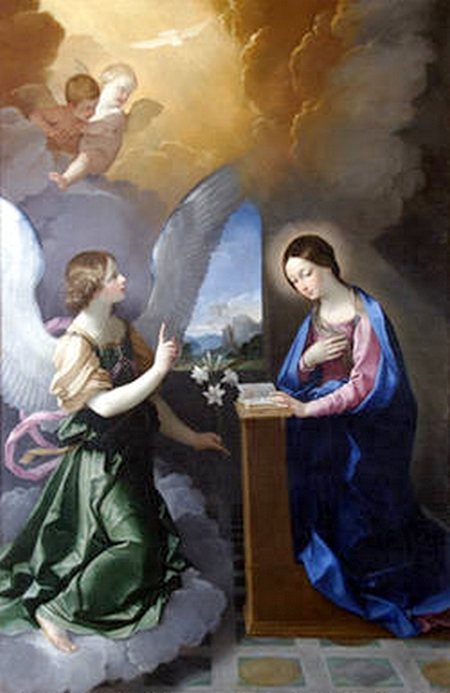 The Annunciation